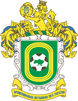 Emblem of PFL, Ukraine